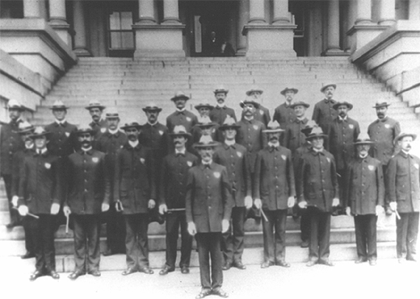 United States Park Police officers (historical